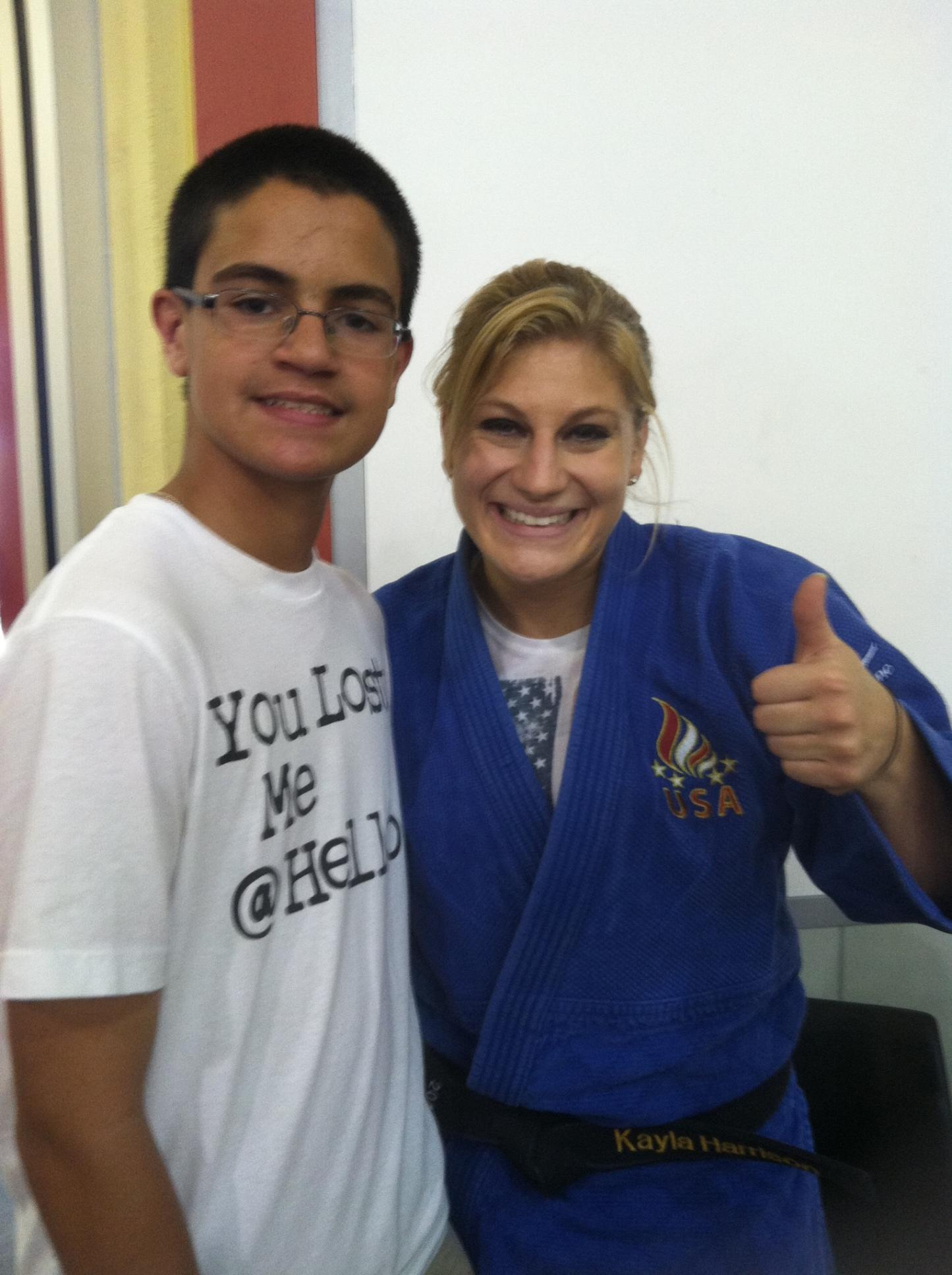 Kayla Harrison with Bryan, a fan from Hialeah, Florida